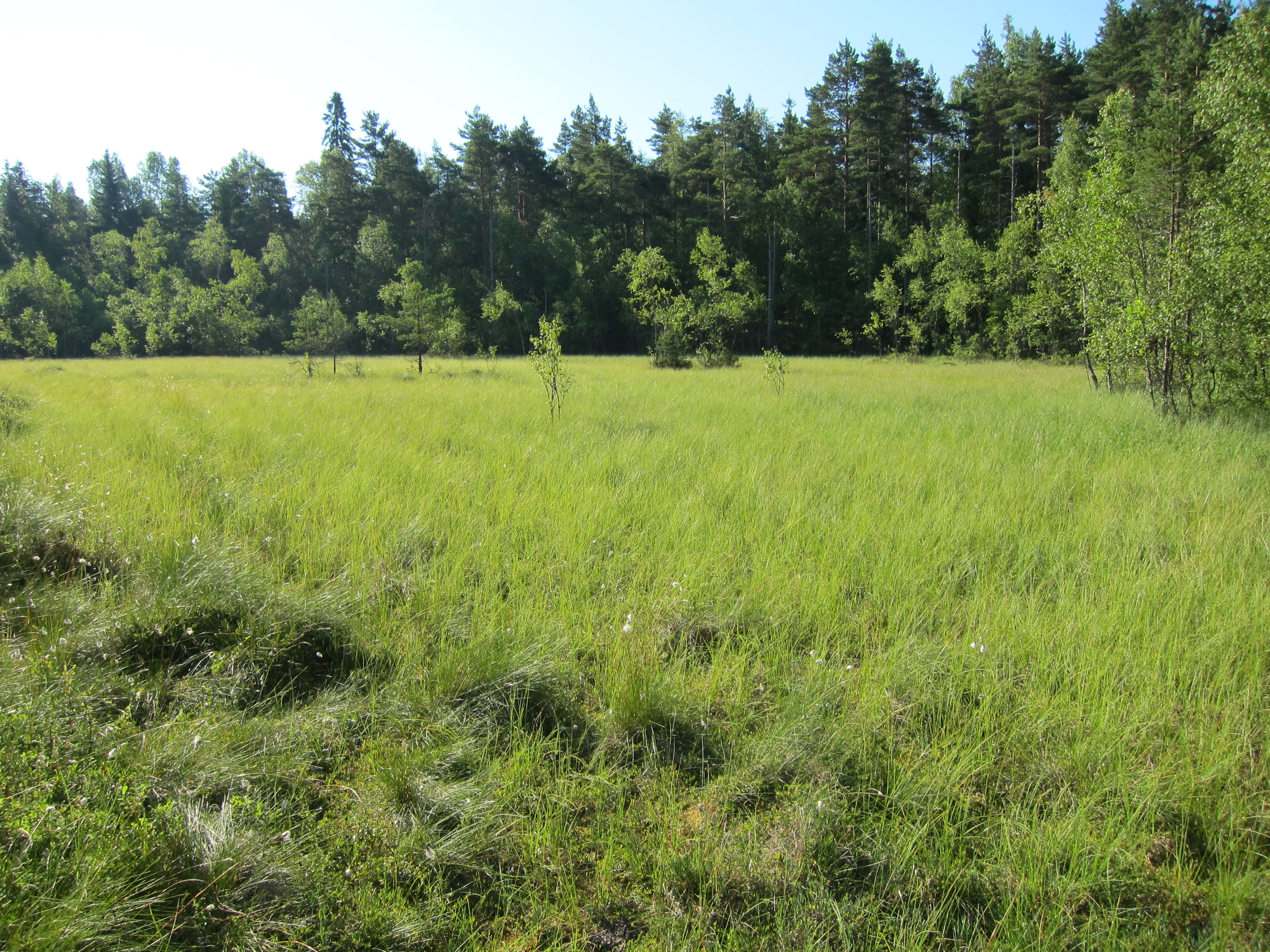 Pomponrahka became protected under the Nature Conservation Act in 1983 and it is part of a national mire protection programme. The mire complex, approximately 70 hectares in area, consists of the Isosuo-bog located further North, and Pomponrahka-bog further south. Pomponrahka is located in the south-west of Finland, city of Turku.